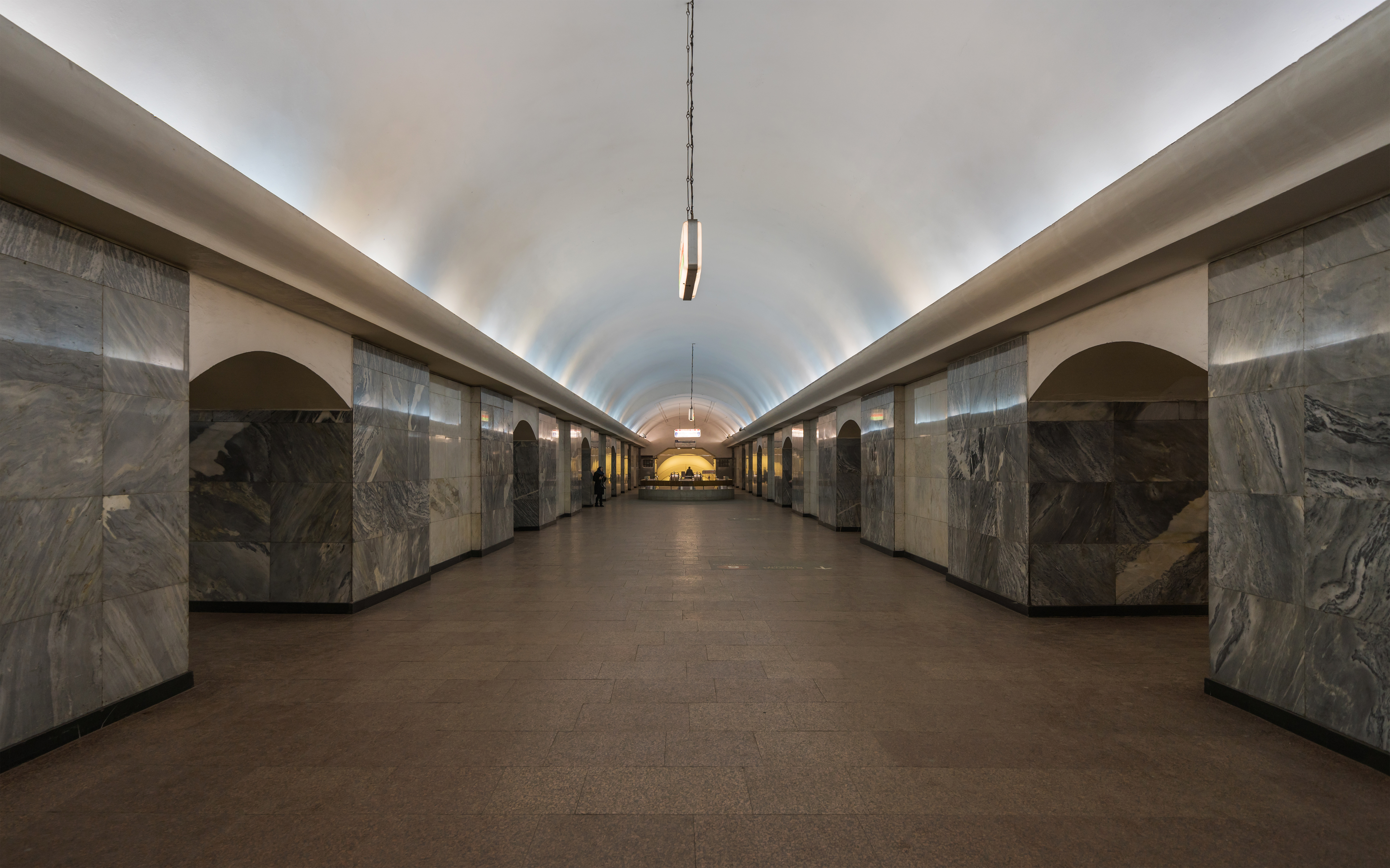 Chistye Prudy metro station in Moscow